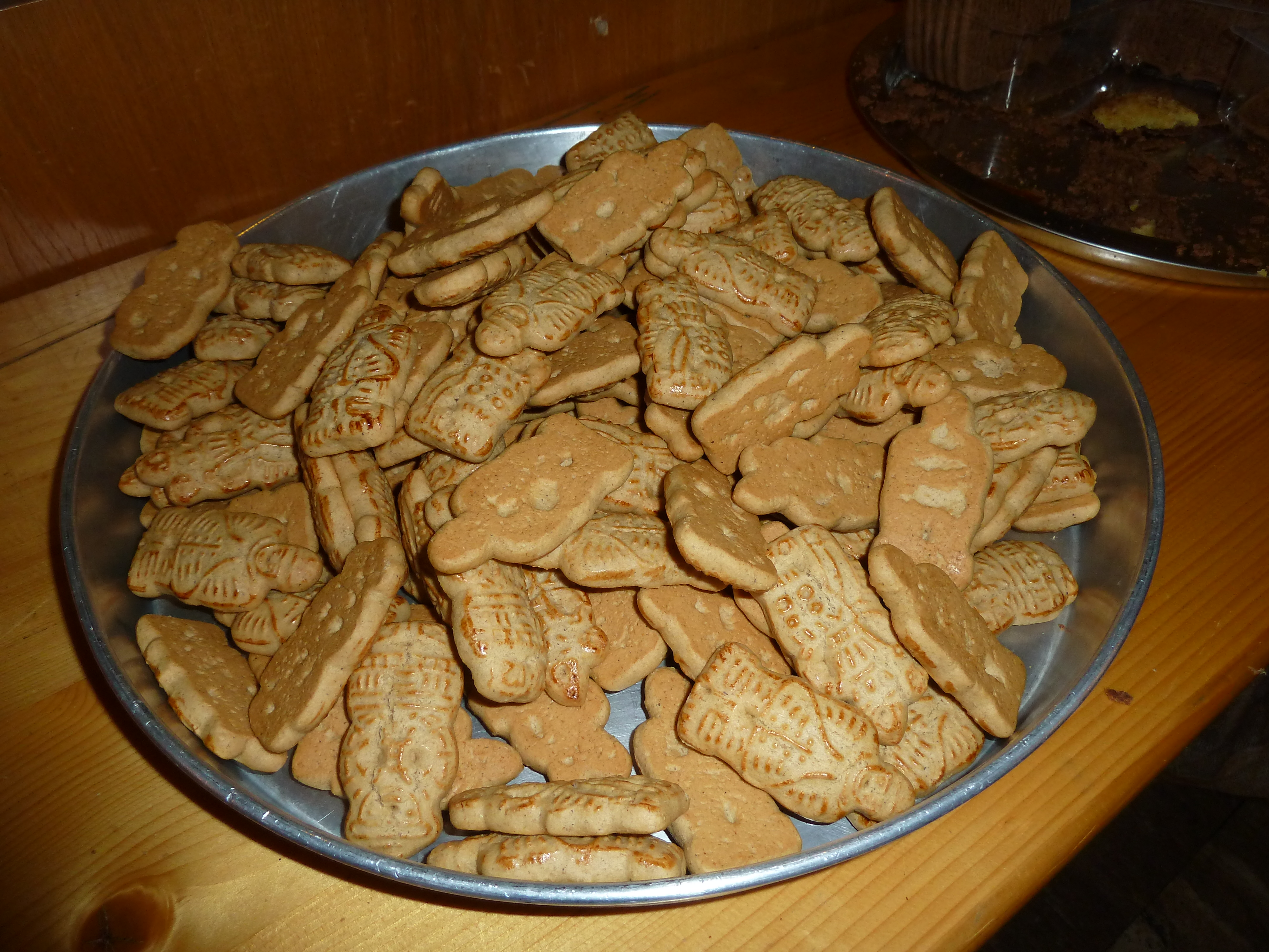 Taaitaai at GLAMcamp Amsterdam